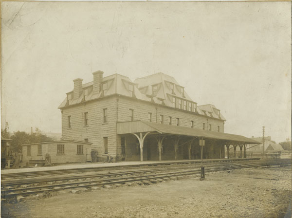 Level of description Item General material designations (GMD) Photograph Statement of responsibility Holloway, Robert Edwards, 1850-1904 Extent 4 photographs: b&w 23.5 x 18 cm (or smaller) Forms part of Photographs of St. John's and vicinity, [between 1892 and 1914] Record type Non-Government Records Source of title Title based on the Holloway Studio typescript index Physical description A 1-26: sepia toned A 3-65: warm-toned Physical condition A 3-65: Ink mark in top right corner of sky Alpha-numeric numbers Holloway Studio #'s: A 1-26 = 256 A 3-65 = 7560 A 17-9 = 257 Availability of other formats A 1-26 = NA 3036 A 3-65 = NA 1061 A 17-8 = NA 1003 A 17-9 = NA 2006 Restrictions on use Originals are restricted for conservation reasons. Digital scans available. Copyright Copyright expired Subjects St. John's (N.L.) Buildings - Railroad stations, warehouses, etc. 1900-1914